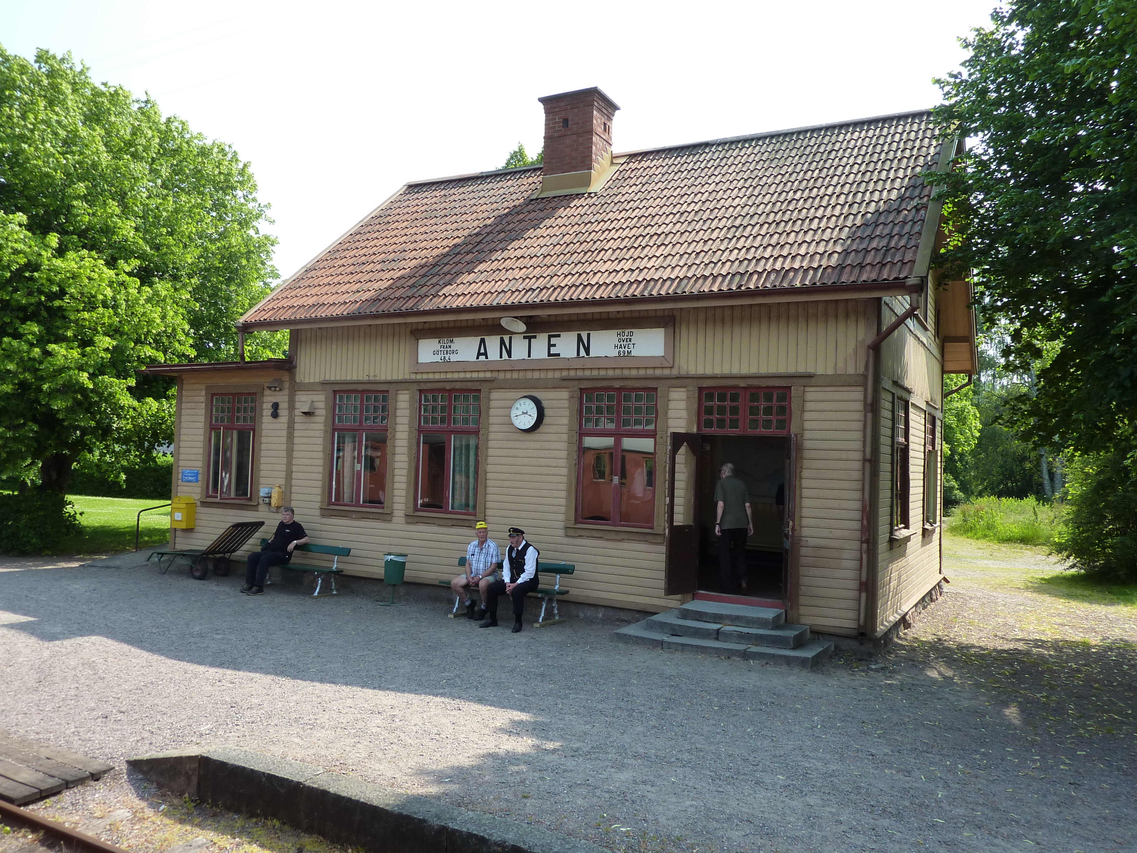 Railway station Anten at Anten - Gräfsnäs museum railway in Sweden